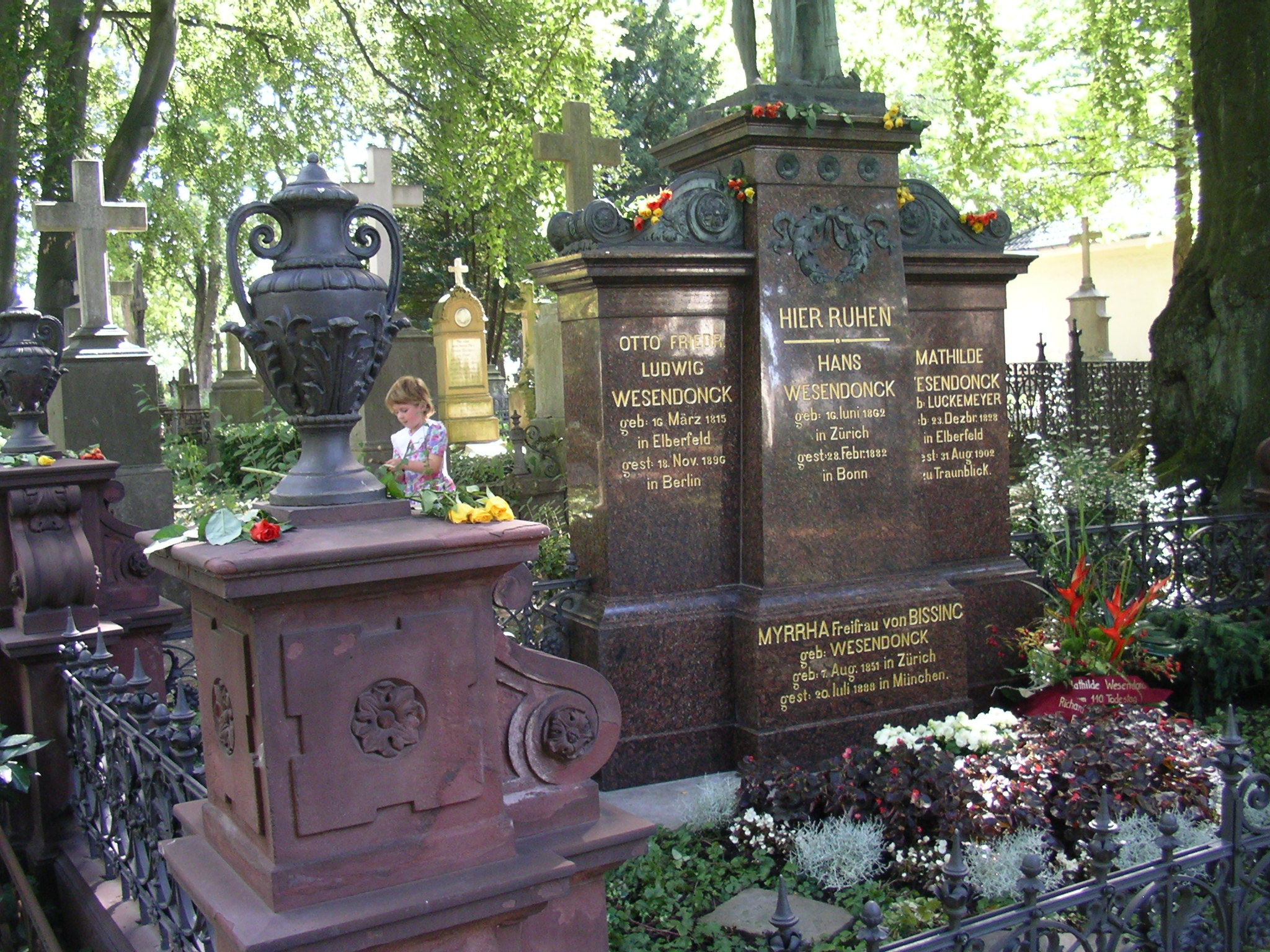 Family Wesendonck grave on Alte Friedhof in Bonn, Germany, after grave polishing, renewed gold leafs, donated and done by Klaus and Karin Isolde Bitter, and public unveiling at 09.09.2012